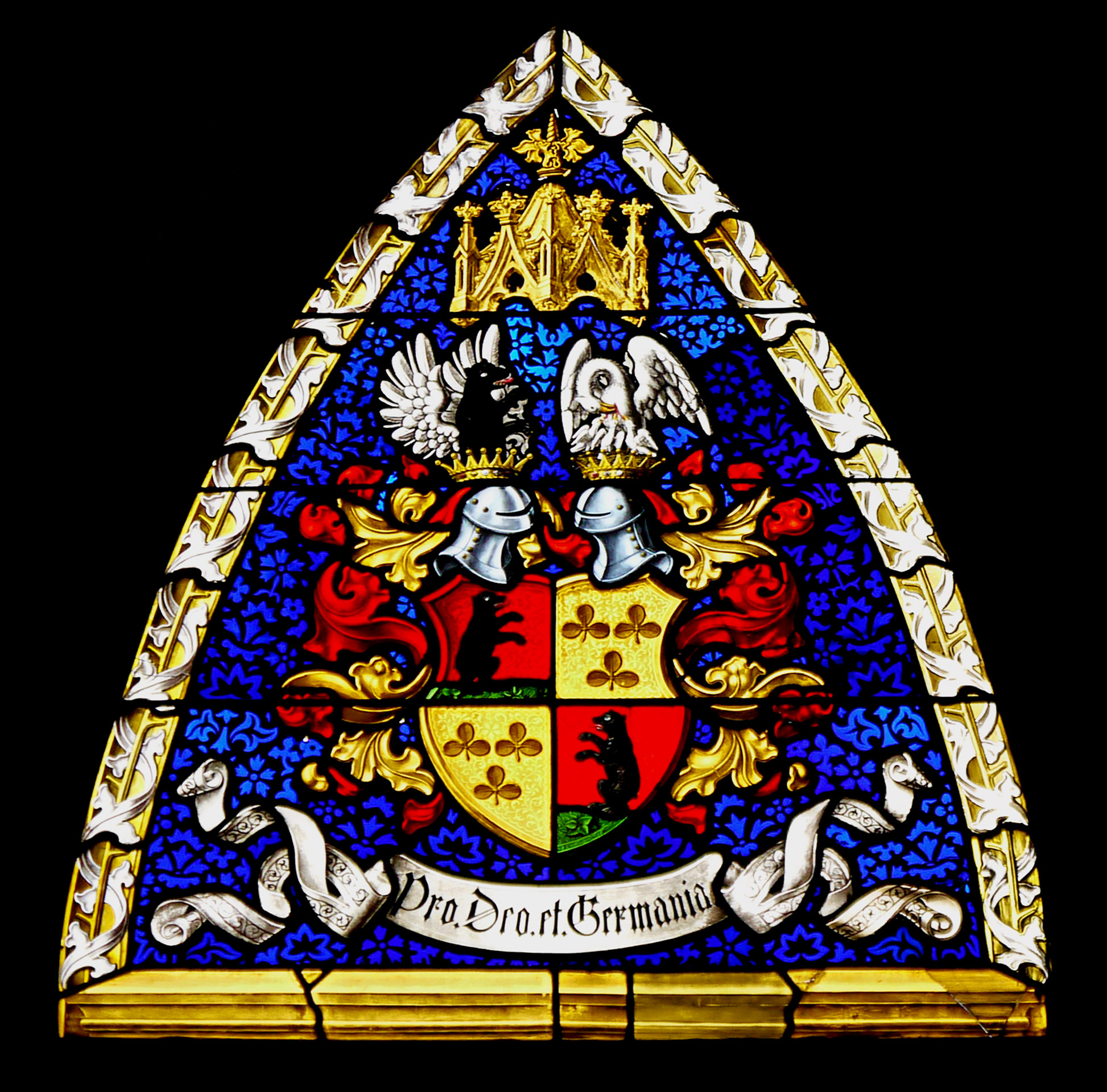 Coat of arms of the Barons of Bernhard.